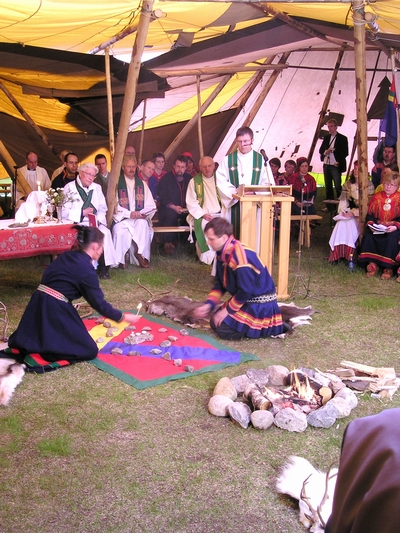 Tore Johnsen, leader of the Sami Church Council, giving a sermon at "Samiske kirkedager" 2004